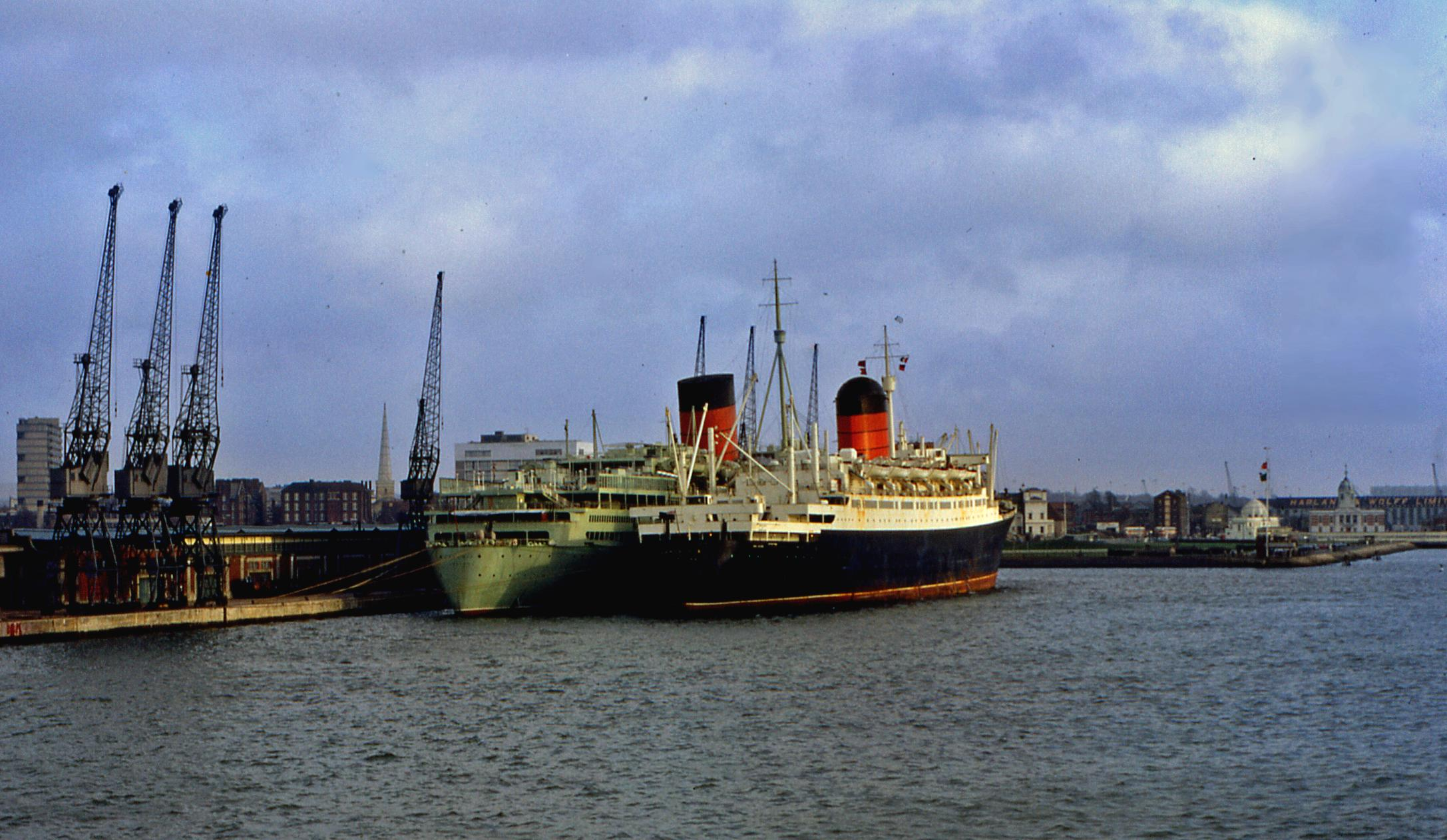 A picture of two laid up ocean liners in Southampton, England. RMS Caronia (later SS Caribia) and RMS Carinthia